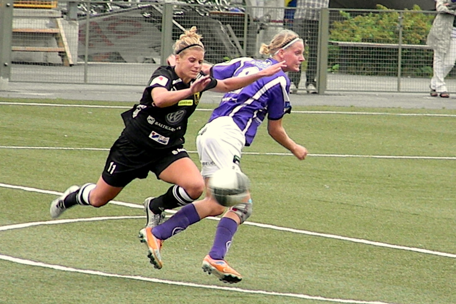 Hanna Pettersson (black), a swedish player from Umeå IK, and Sofia Karlsson, a swedish player from Jitex BK